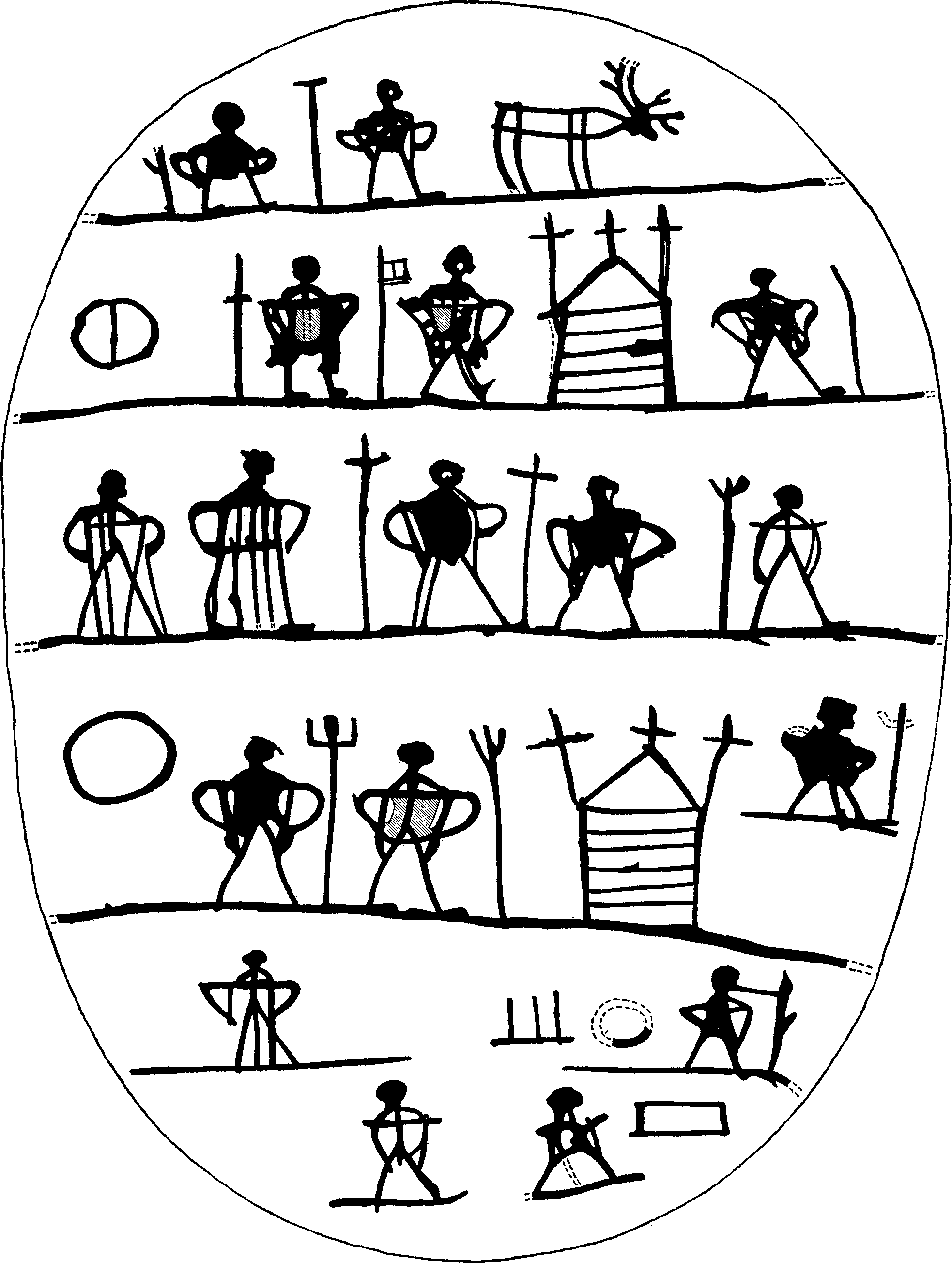 Sami drum owned by Anders Paulsen of Finnmark, Norway, who was sentenced for witchcraft in Vardø 1692. Bowl drum. 44 x 34 cm. No 71 in Ernst Mankers Die lappische Zaubertrommel (1938 and 1950). Owned by De Samiske Samlinger, Karasjok, since 1979. Previously in Copenhagen since 1694.